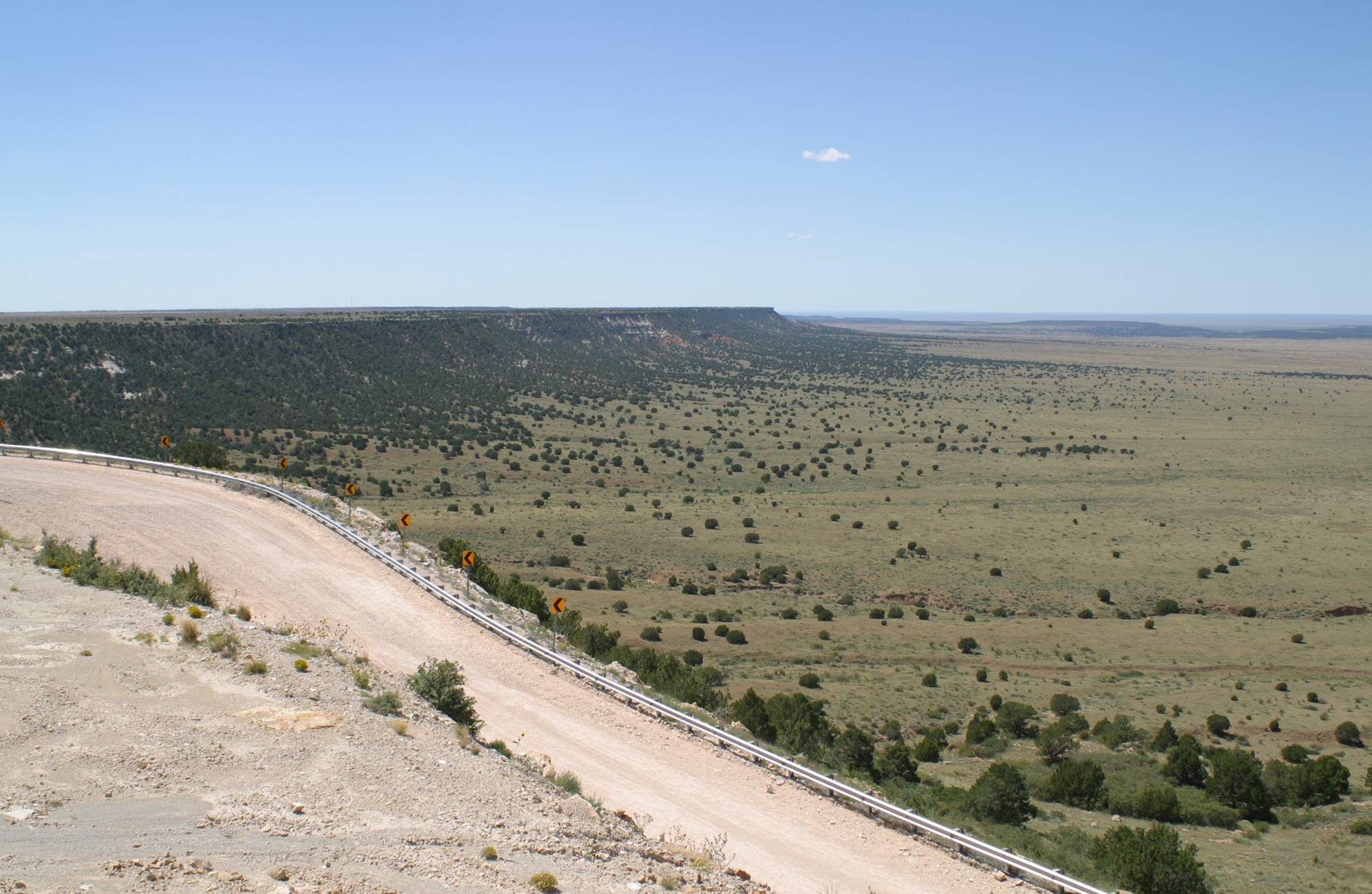 Northwest escarpment of the Llano Estacado (plateau at left) overlooking Alamogordo Valley (lowlands at right) of Quay and Guadalupe counties, Eastern New Mexico. View is looking to the southwest from an unpaved New Mexico State Road 156. The high plains shown here are more than one mile above sea level (altitude: 5400 ft).